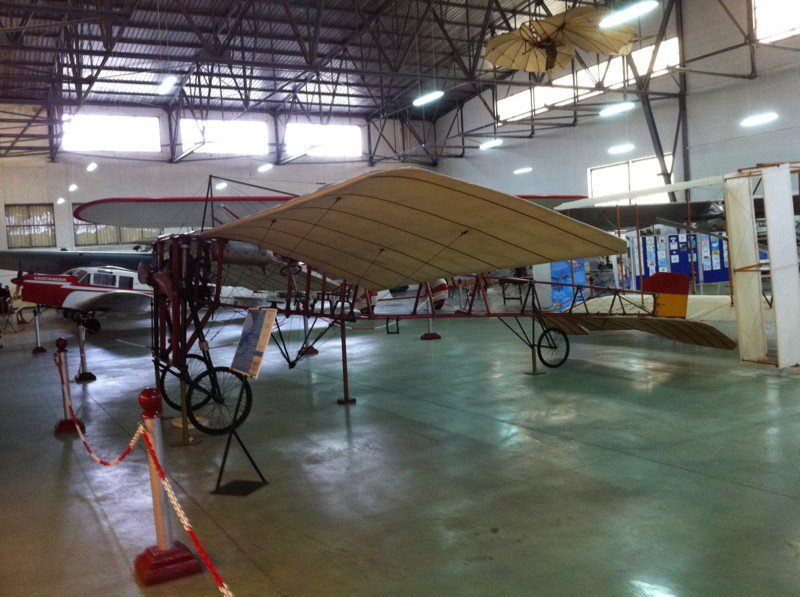 A spanish aircraft special version of french Blériot XI.